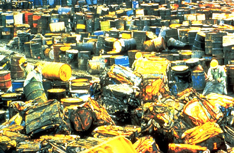 The Valley of the Drums, a toxic waste dump in northern Bullitt County, Kentucky. This site was one of the reasons the the U.S. Superfund law was enacted.